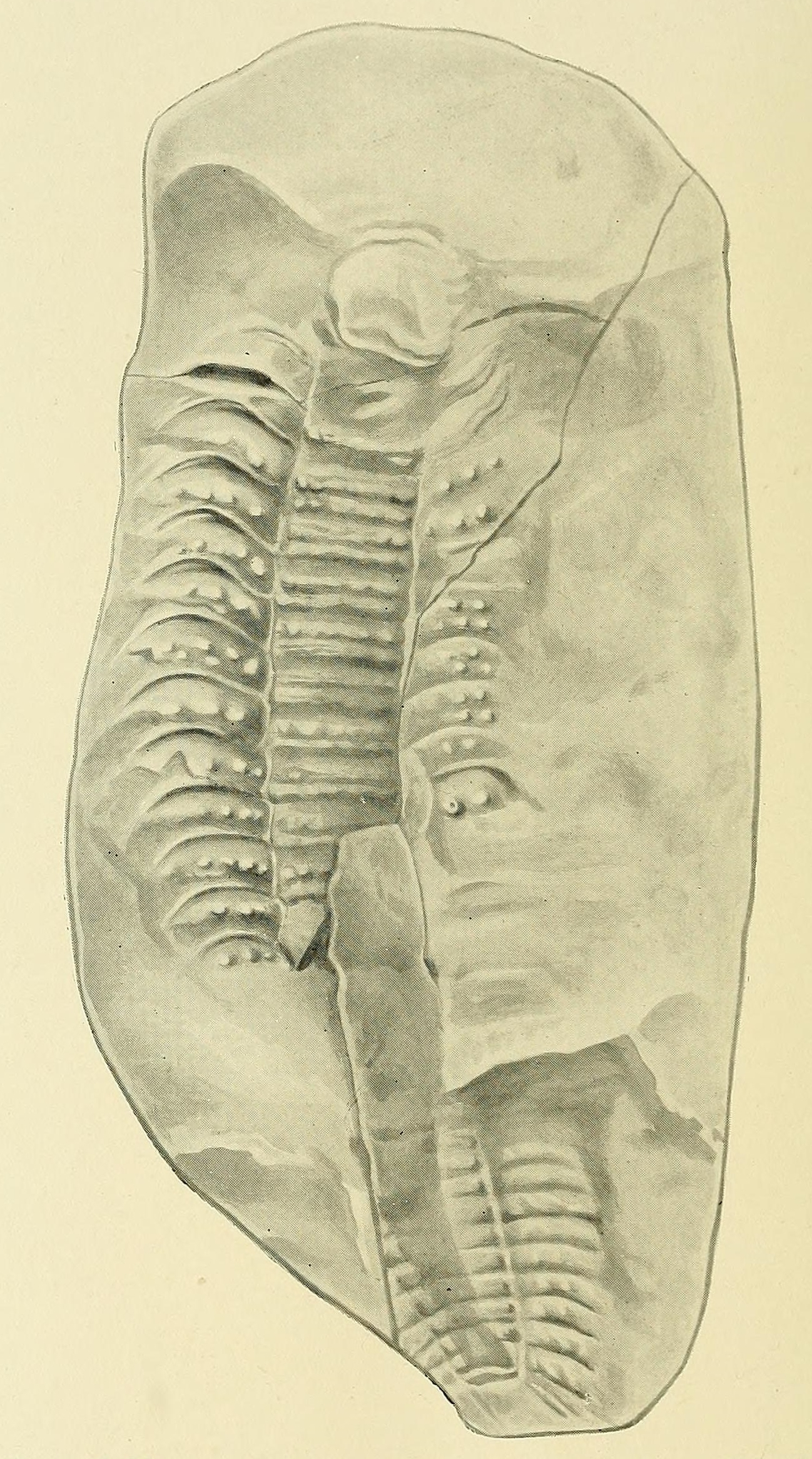 Arthropleura moseyi, fossil illustration, approximately 60 mm in total body length.